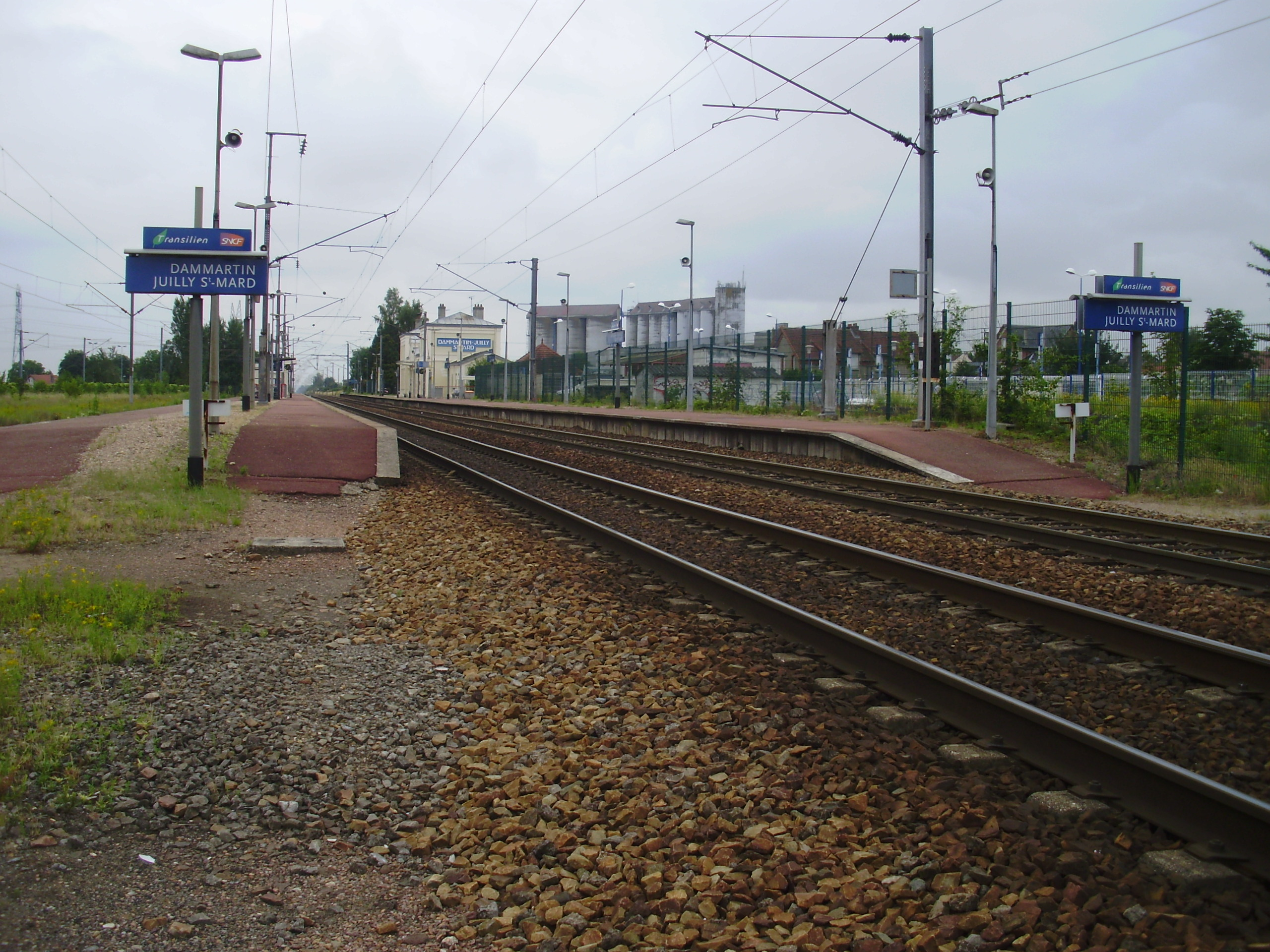 Dammartin - Juilly - Saint-Mard station, in Saint-Mard, Seine-et-Marne, France (general view of platforms and tracks towards Paris)